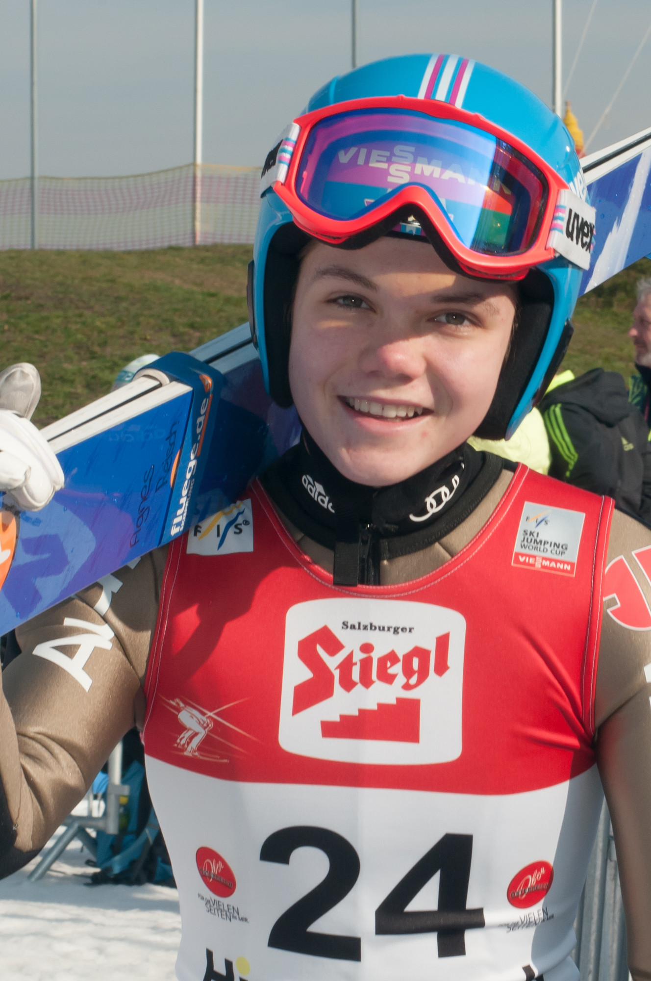 FIS Ski Jumping World Cup Ladies Hinzenbach 2016-02-07